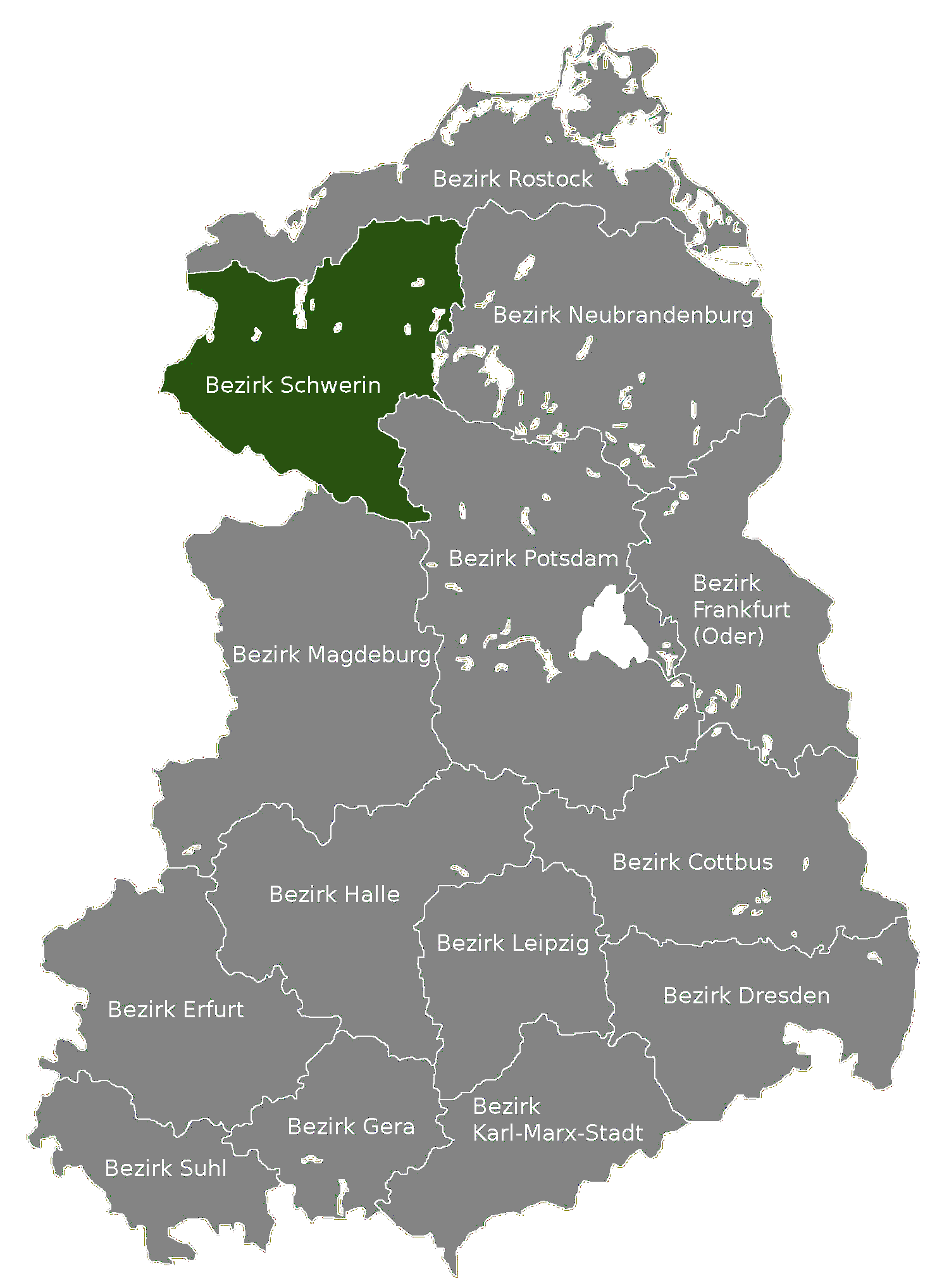 Map based on German Wikipedia